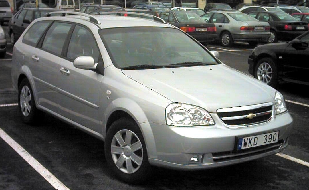 2005 Chevrolet Nubira SW 1.6 photographed at Holmgrens in Jönköping, Sweden. Chassis number KL1NF35615K118973, 80kW and manual transmission.